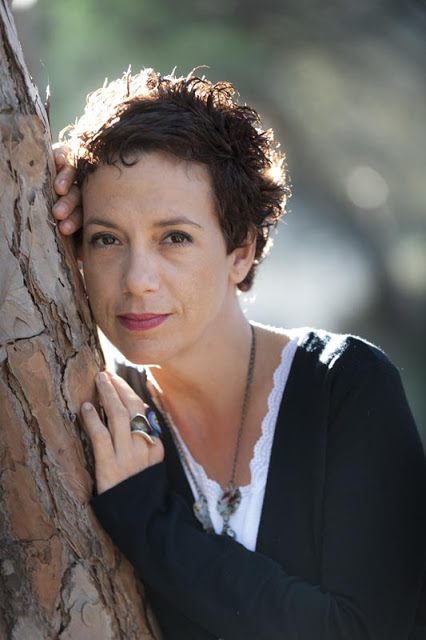 Laura de la Uz, actress, Cuba